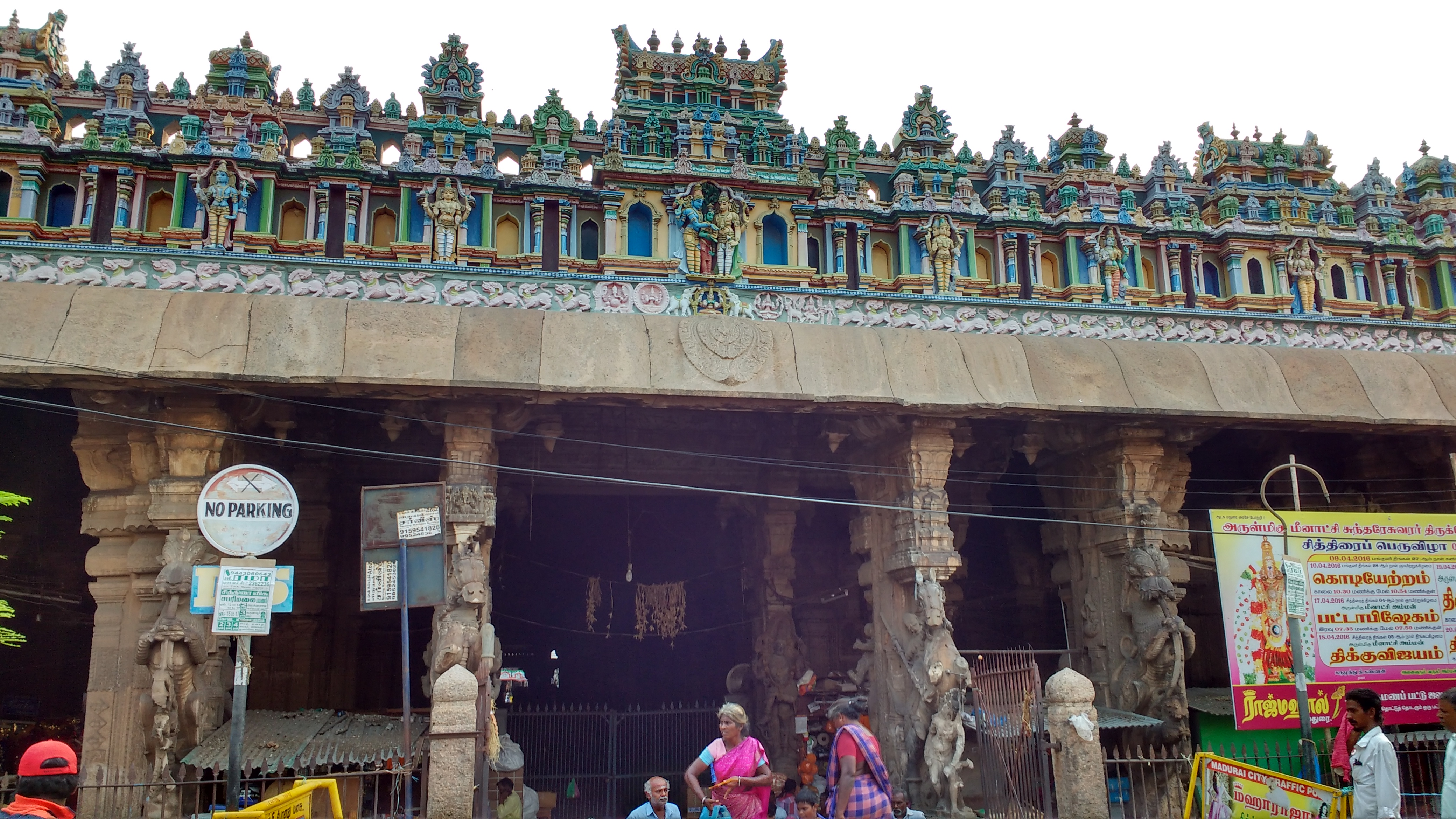 Eastern Gate of Pudumandapam